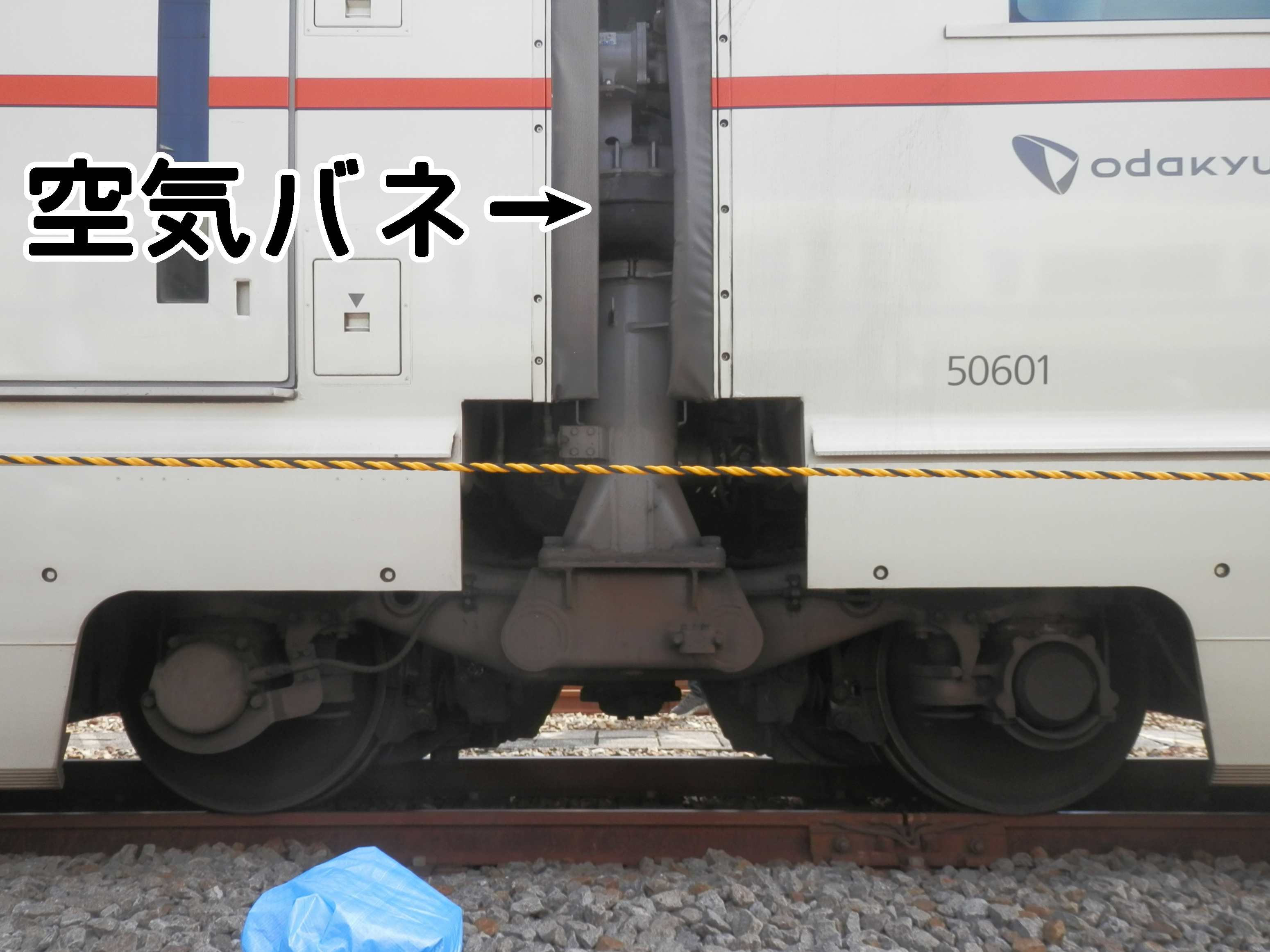 Jacobs bogie of Odakyu Electric Railway type 50000. 小田急電鉄50000形電車の連接台車(ND735) 2015-10-18 Photo by Cassiopeia_sweet.